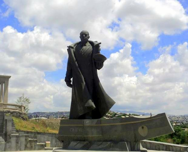 Բրոնզաձույլ արձանը տեղադրված է գրանիտե պատվանդանին, որի վրա նստած է ճայը: Դեպի Արարատ լեռն ու Երեւանյան լիճը նայող Հ.Իսակովը ձախ ձեռքում պահել է գլխարկ, աջում` հեռադիտակ: Ըստ ճարտարապետ Լեւոն Մկրտչյանի` գլխարկը խորհրդանշում է սեփական ժողովրդին պաշտպանելու, իսկ հեռադիտակը` նրա անվտանգությունը հսկելու պատրաստակամությունը: Քանդակագործներ` Գևորգ Գևորգյանն ու Ռոբերտ Պալյան